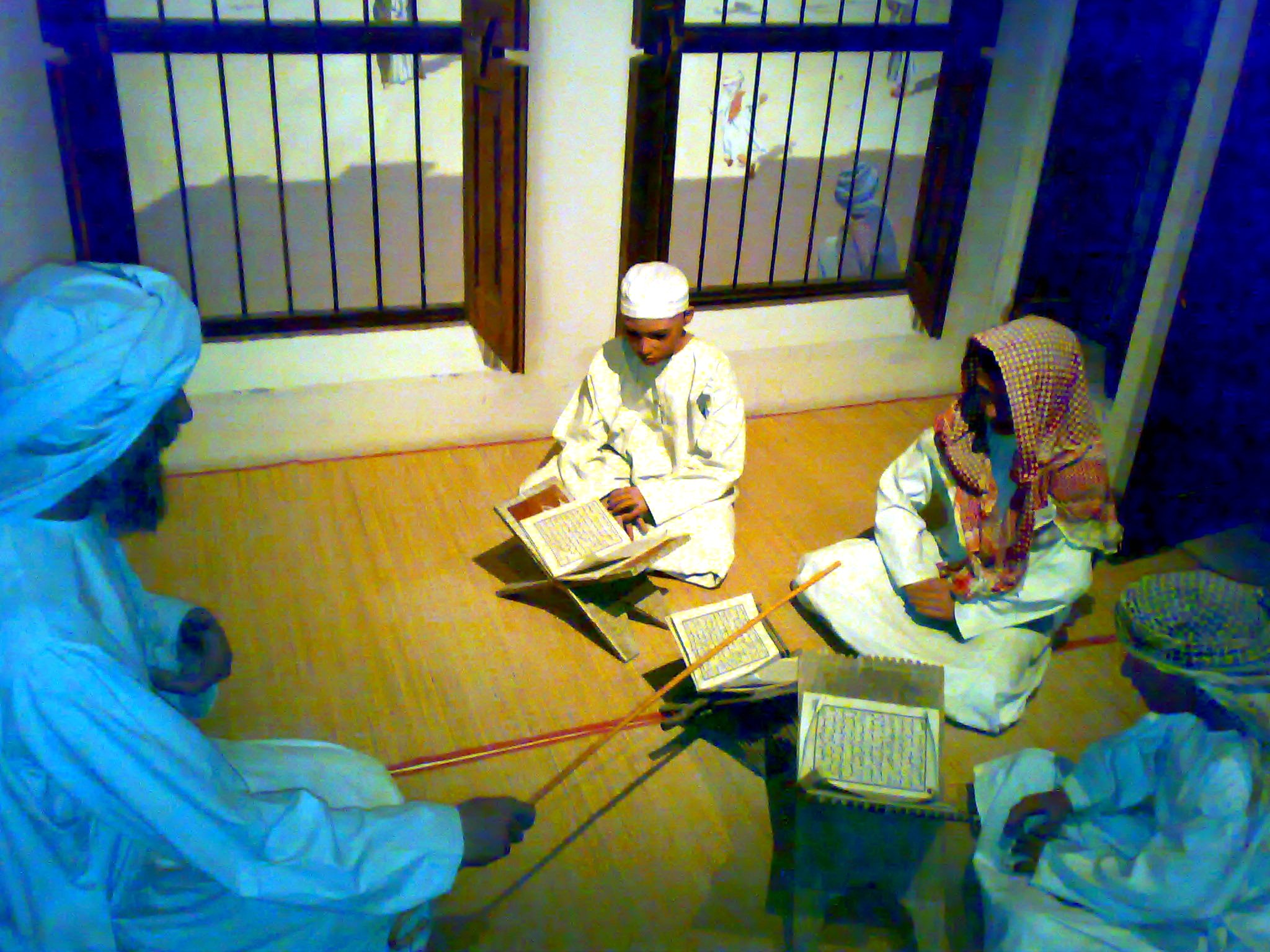 Al Fahidi Fort houses the present-day Dubai Museum. This exhibit shows the first school of Dubai, from early 1800s